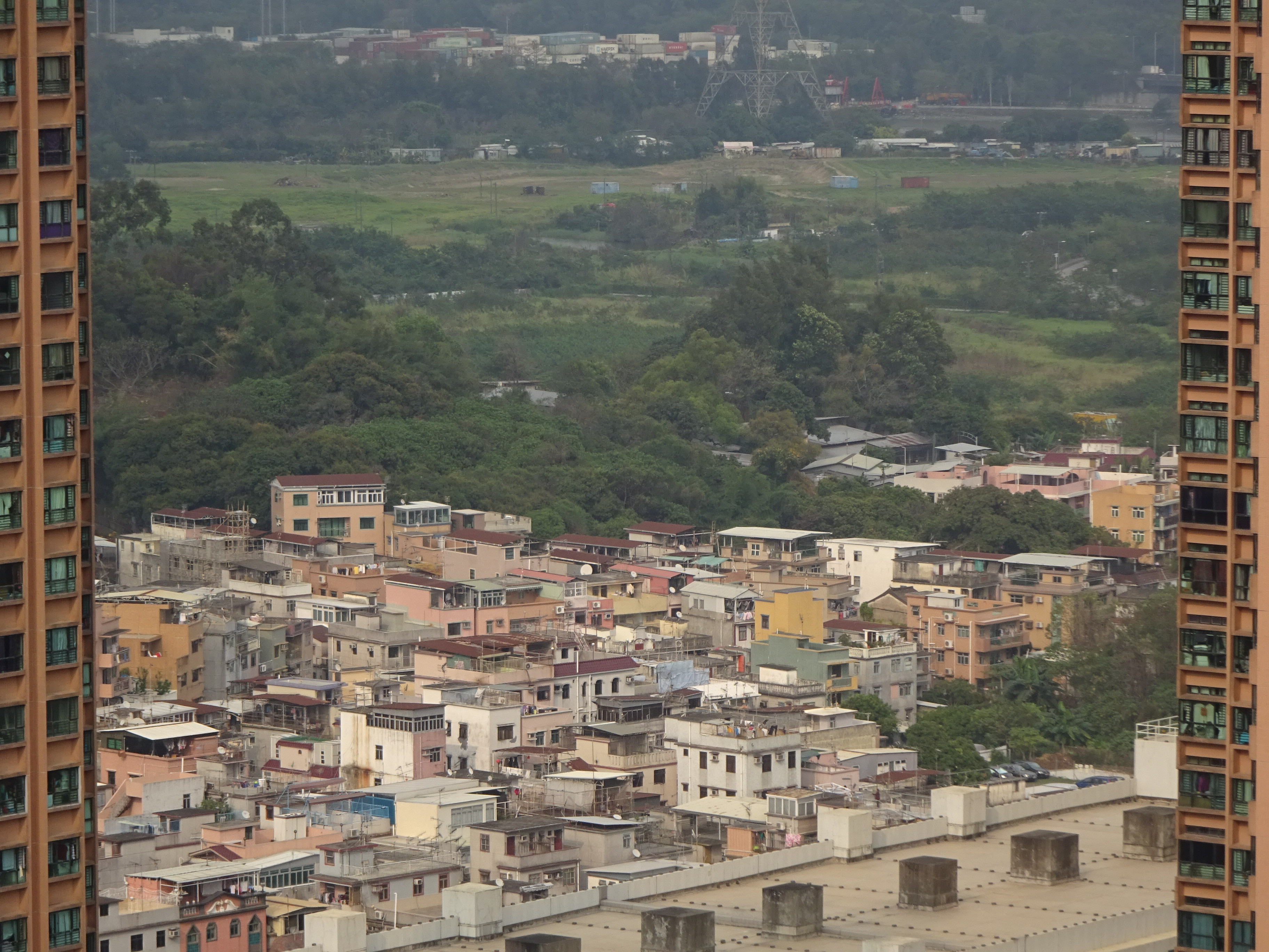 元朗舊墟, View from Shun Fung Building, Yoho Town, Yuen Long Kau Hui in March 2016